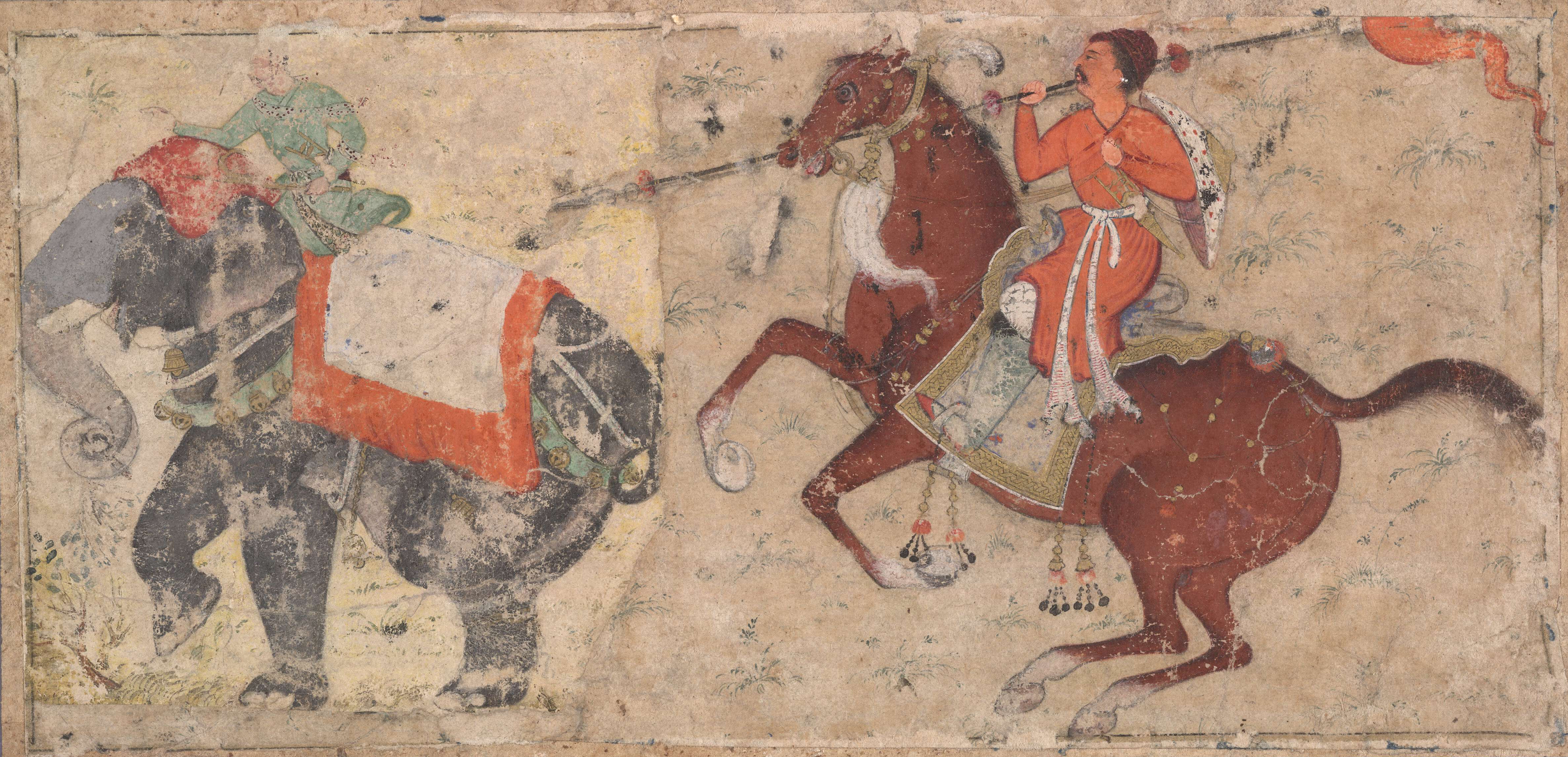 Painting illustrating an elephant with his mahout attacked by a spearman on horse. Void background. No text.Two miniatures joined together